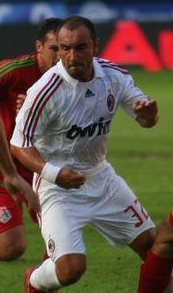 Cristian Brocchi